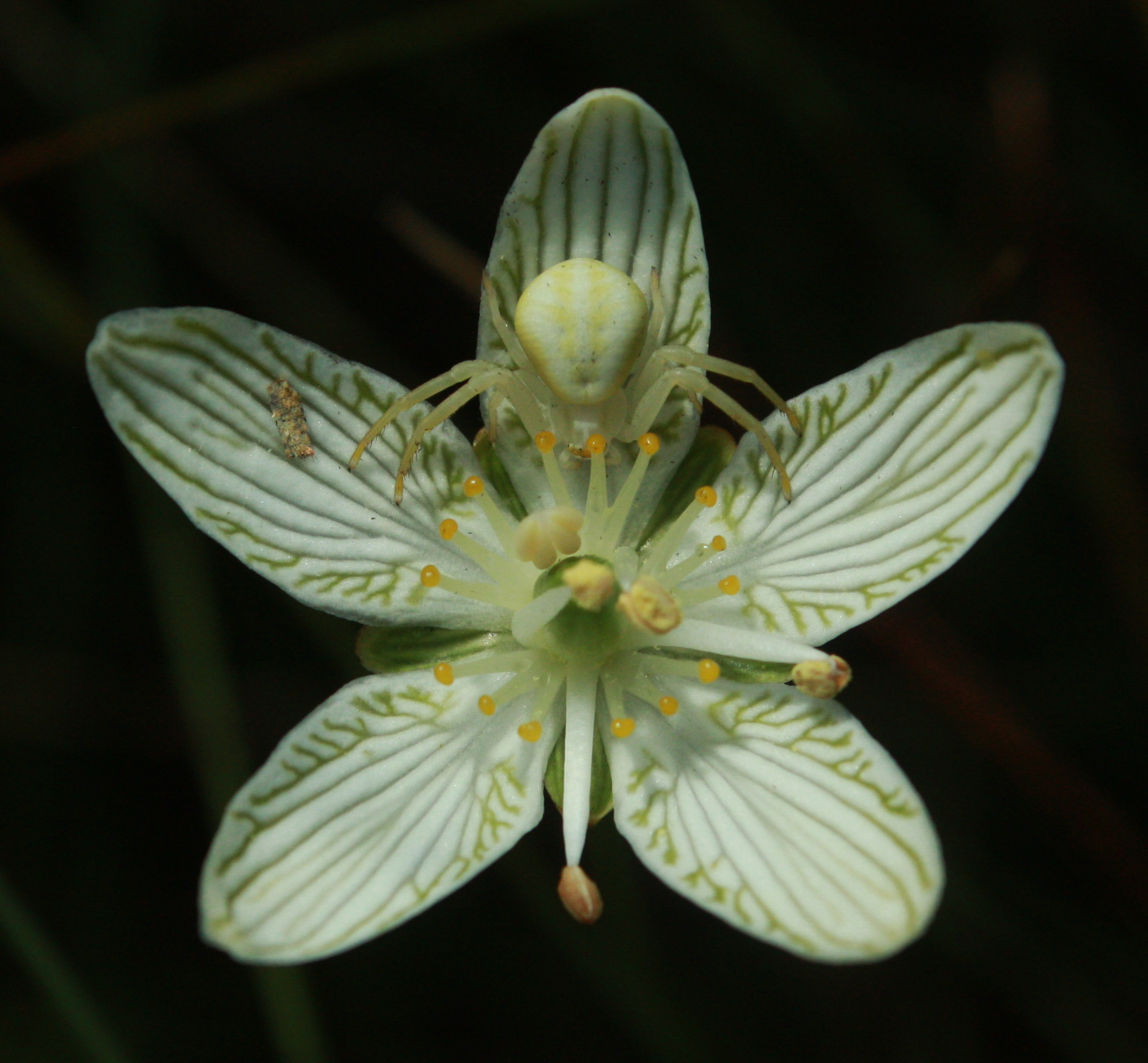 Grass of Parnassus (Parnassia glauca) in a fen (minerotrophic peatland) in Saint-Fabien, Bas-Saint-Laurent region, Québec.